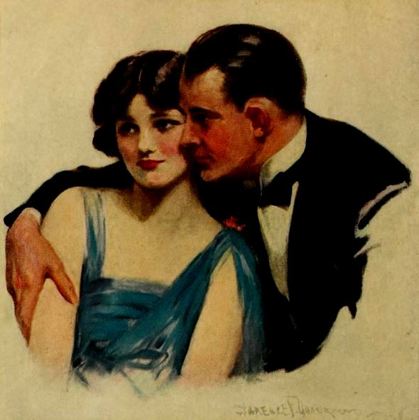 "A Skin You Love To Touch" by Clarence F. Underwood, from an ad for Woodbury's Facial Soap, on the back cover of the February 1922 Photoplay. Title of the work with artist name listed in the ad.